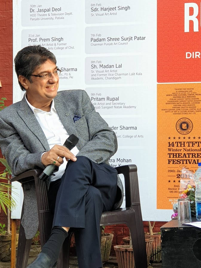 Atul Sharma Music Director